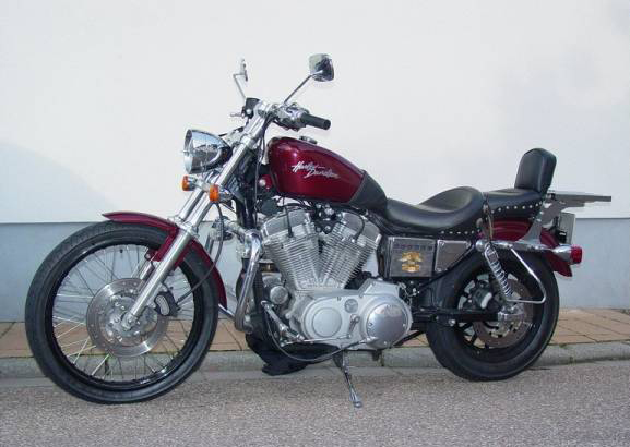 2002 Harley-Davidson Sportster 883 Custom